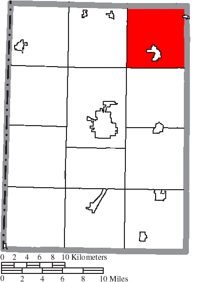 Map of the municipal and township boundaries of Preble County, Ohio, United States, as of the 2000 census, with the location of Harrison Township highlighted. Township borders are shown only in unincorporated areas in order to differentiate incorporated and unincorporated areas more clearly.